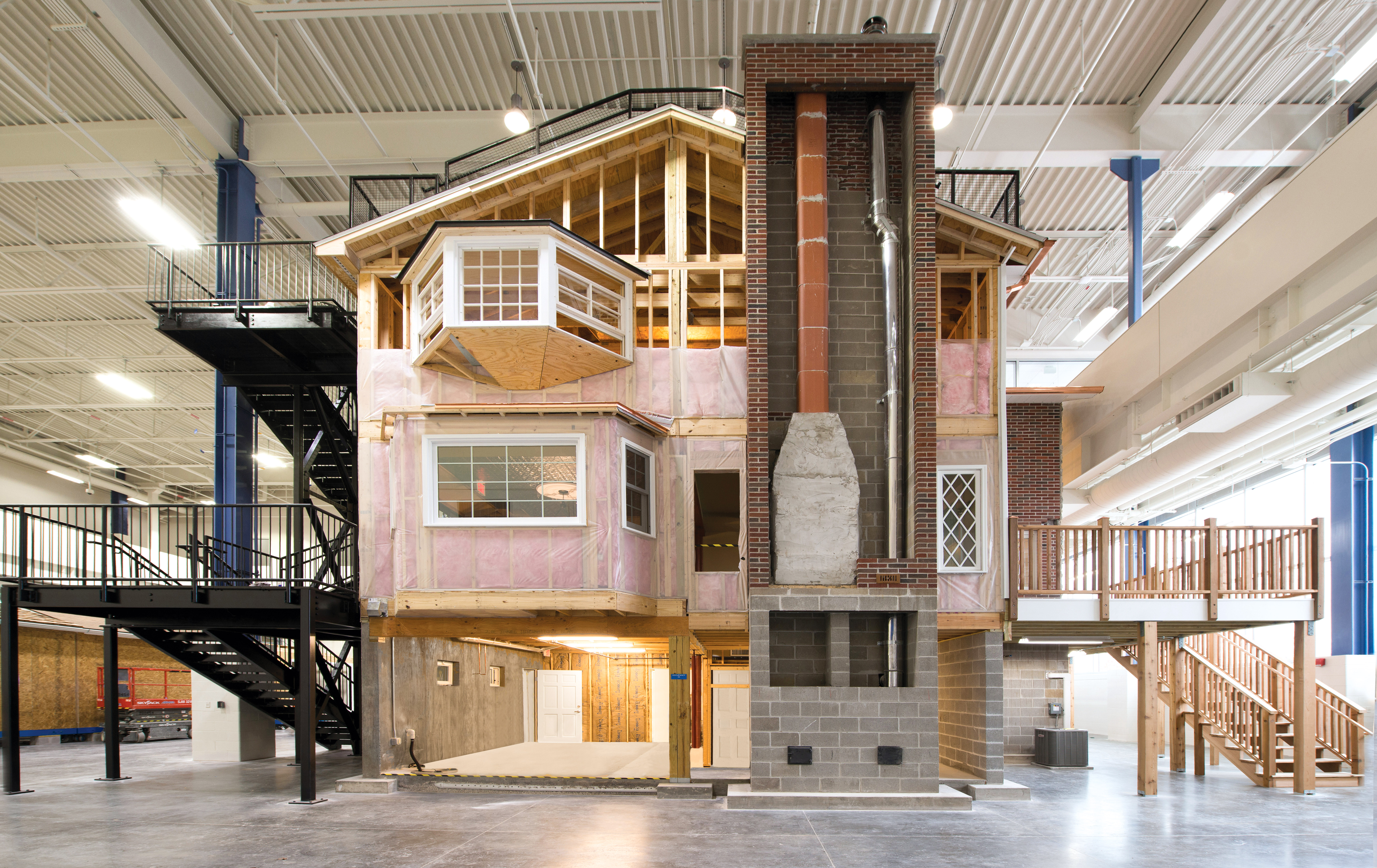 3 story model house located inside TLC